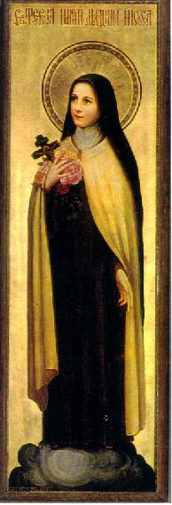 Icon of Saint Terese in Russicum Chapel, Roman Catholic Church